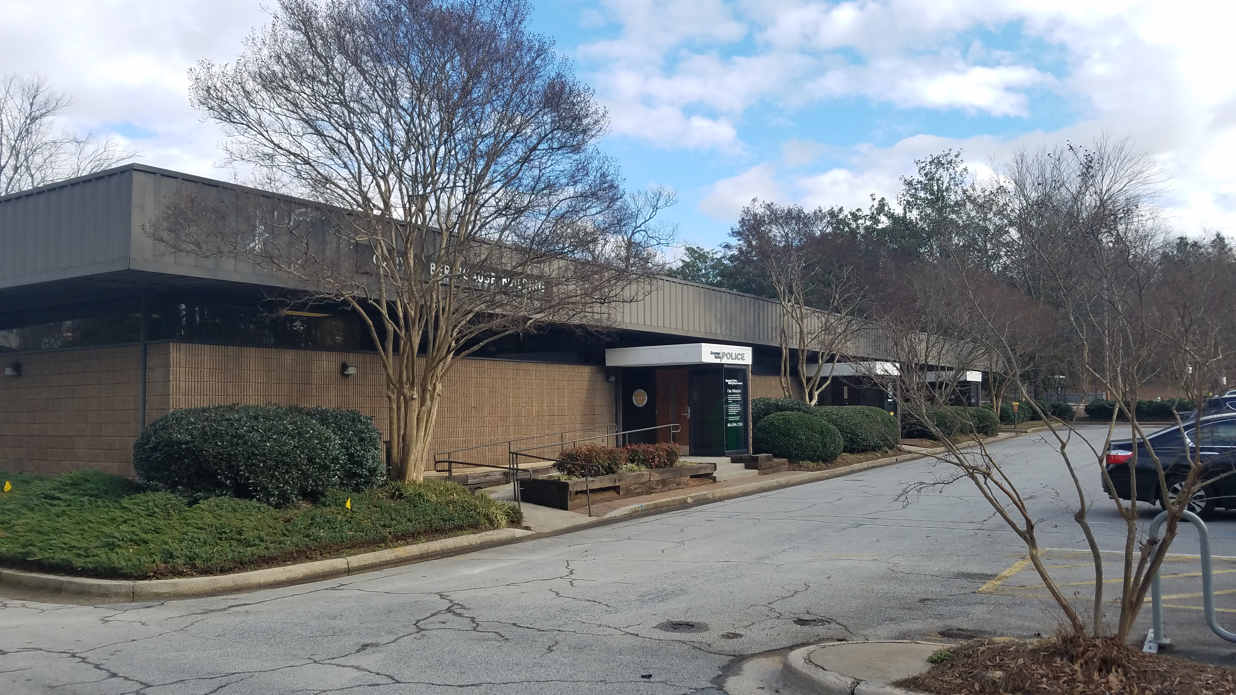 Beringause Building on the main campus of the Georgia Institute of Technology, Atlanta, Georgia, United States